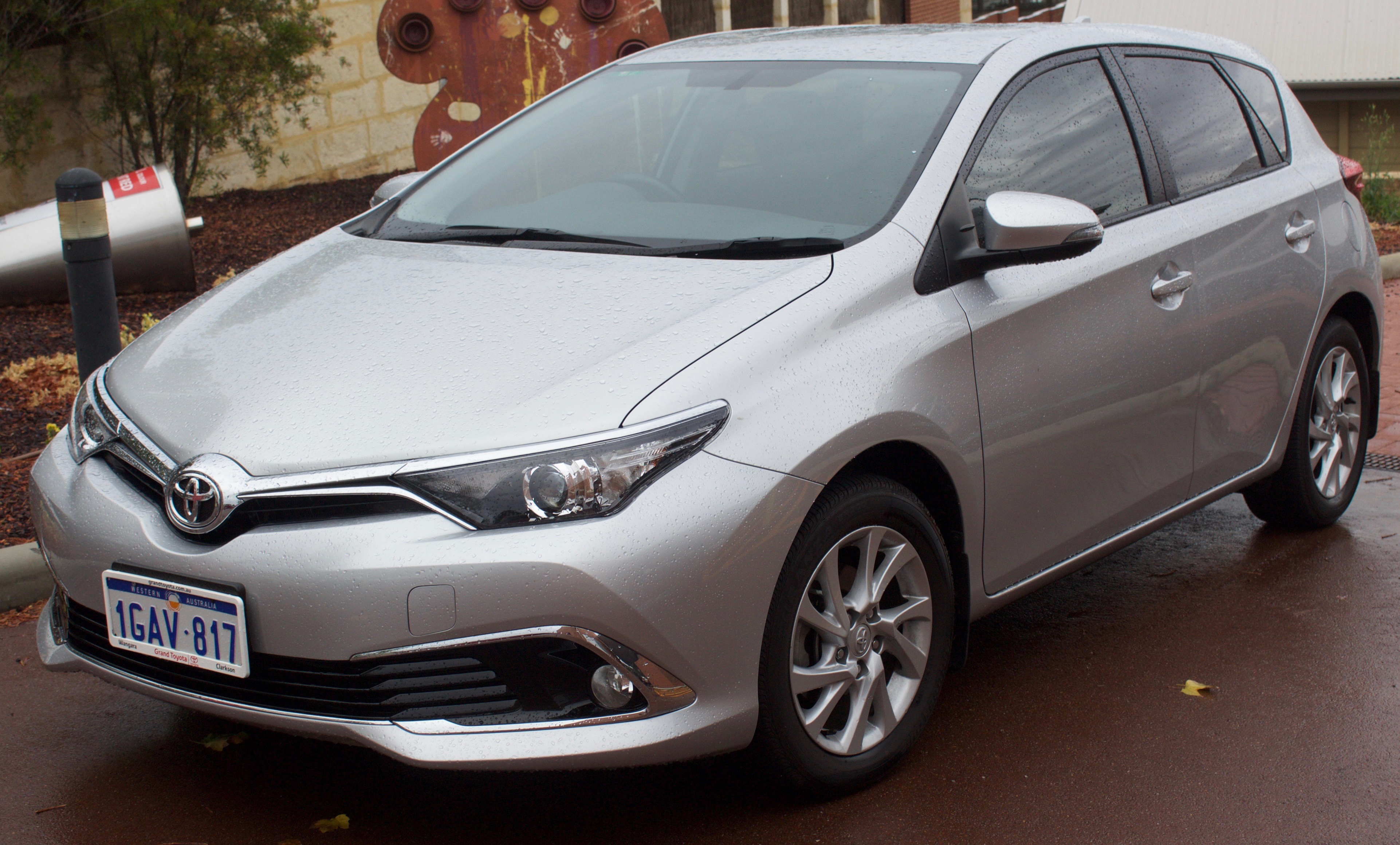 2016 Toyota Corolla (ZRE182R) Ascent Sport hatchback. Photographed in Swanbourne, Western Australia, Australia.